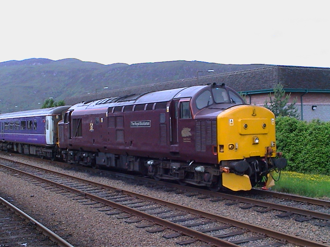 Class 37 locomotive (37401) at Fort William with ScotRail sleeper from London Euston, 19/06/03.